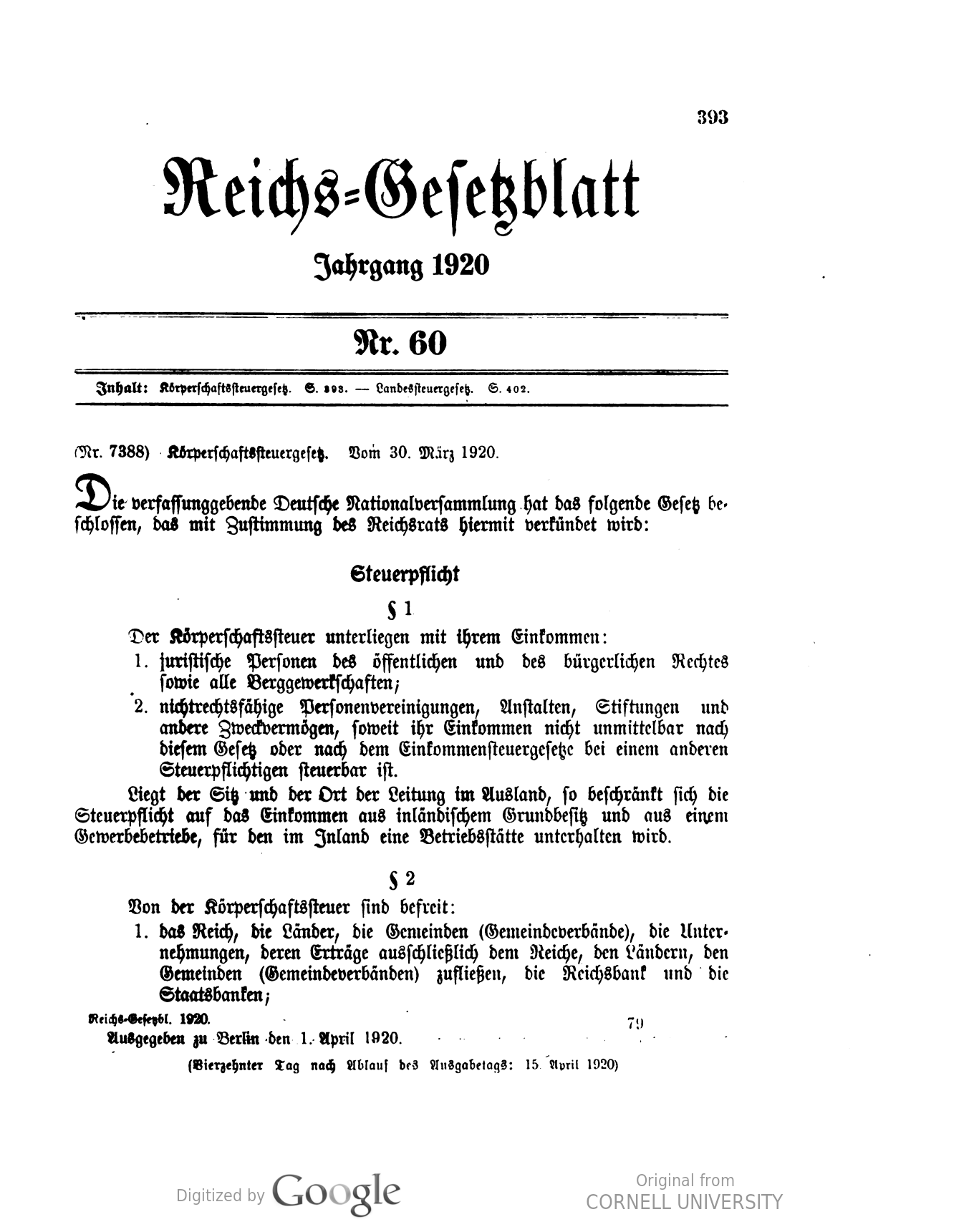 Scan from the Imperial Law Gazette of Germany, 1920